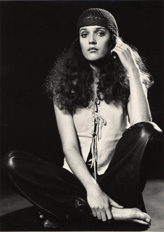 This photograph was taken for Judith Baragwanath's model portfolio by Max Thomson in the early 1970s. Judith is wearing her favourite leather pants.